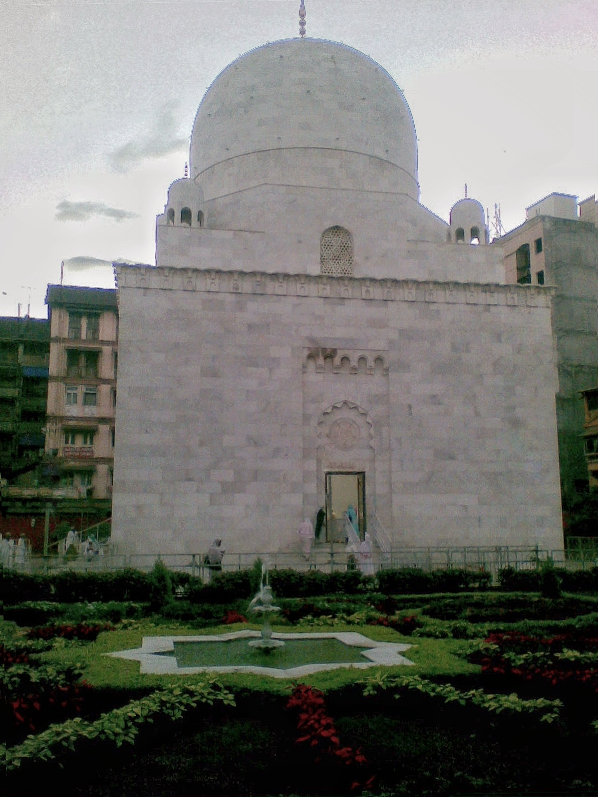 Raudat Tahera in Mumbai built by Mohammed Burhanuddin and inaugurated by Fakhruddin Ahmed, the President of India, in 1975 is the burial place of Taher Saifuddin, the 51st Da'i al-Mutlaq of the Dawoodi Bohras, and his son, the 52nd Da'i al-Mutlaq, Mohammed Burhanuddin.